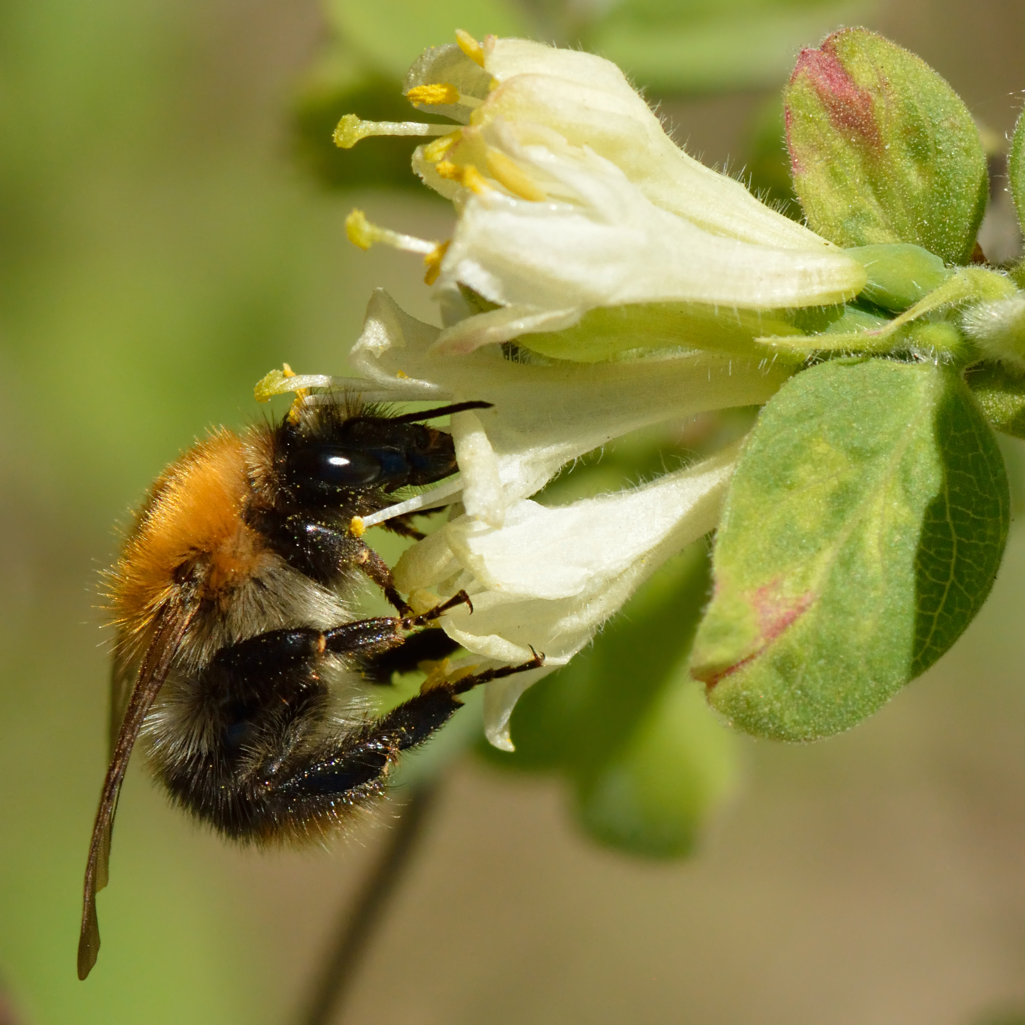 Common carder bee (Bombus pascuorum) on the blue honeysuckle (Lonicera caerulea). Keila, northwestern Estonia.